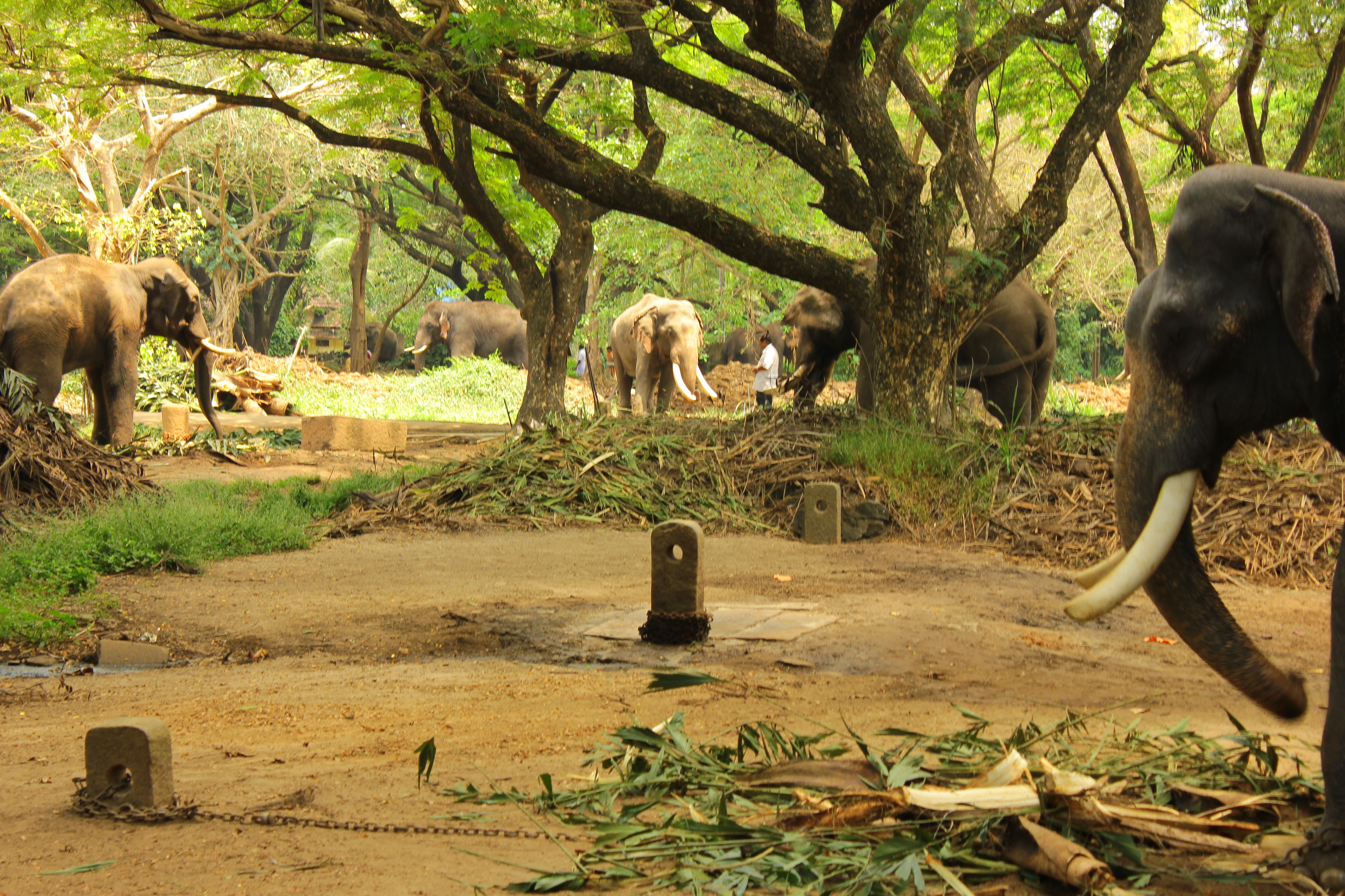 photograph taken at punnathoor kotta, a place kerala